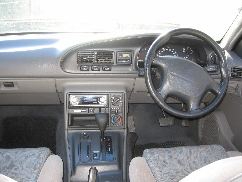 Interior of a 1994–1995 Holden VR II Commodore SS sedan, photographed in New Zealand.